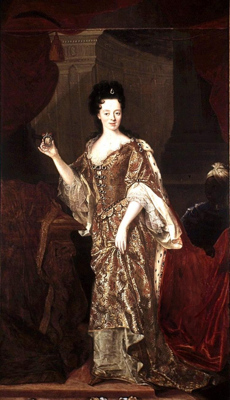 Anna Maria Luisa de' Medici (1667-1743) holding a miniature of her husband the Elector Palatine